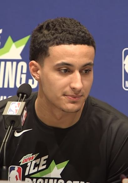 Los Angeles Lakers forward Kyle Kuzma in 2019